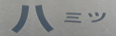 Symbol of JR East Mitaka Rolling Stock Center, marked on its rolling stock